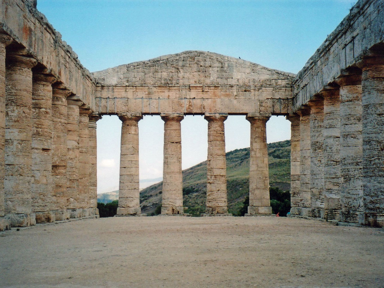 This is the view from the inside of the temple of Segesta. There is argument over whether the temple was left intentionally open or not. This would not match the Greek ideal and the temple is a very good copy of a Greek temple. It even faces the right direction.